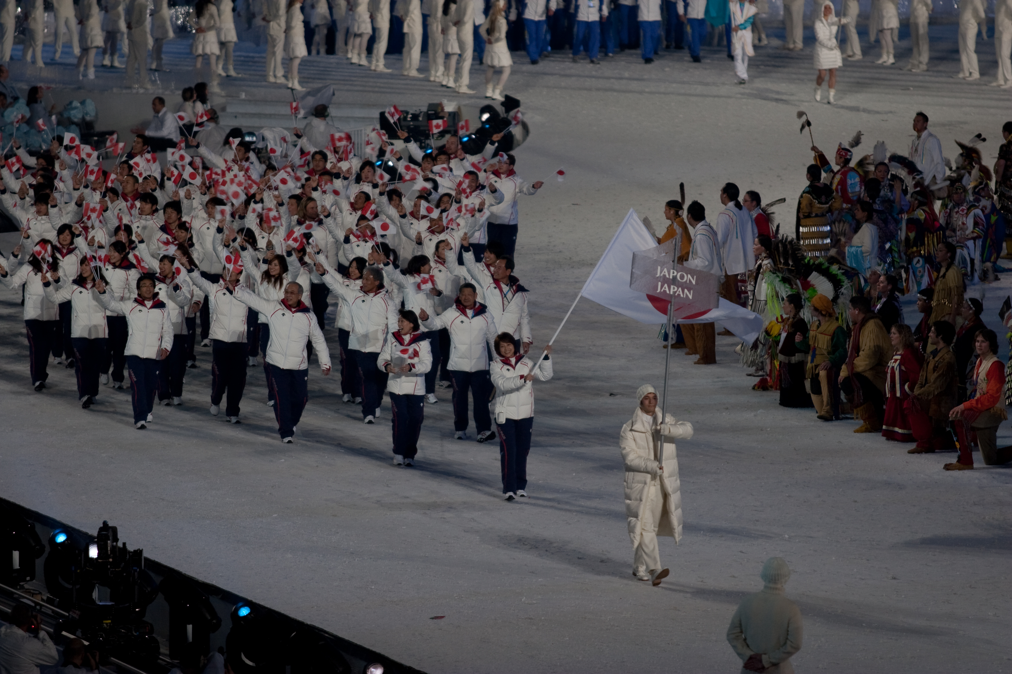 The athletes from Japan entering the stadium at the opening ceremonies of the 2010 Winter Olympics